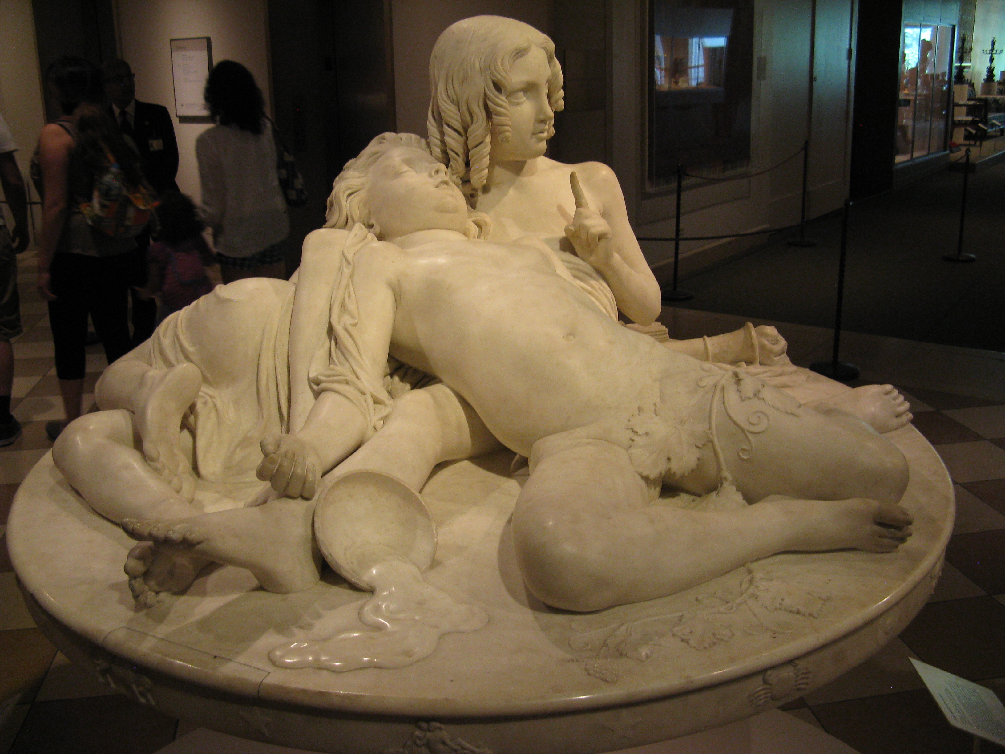 The Demidoff Table by Lorenzo Bartolini at Metropolitan Museum of Art.